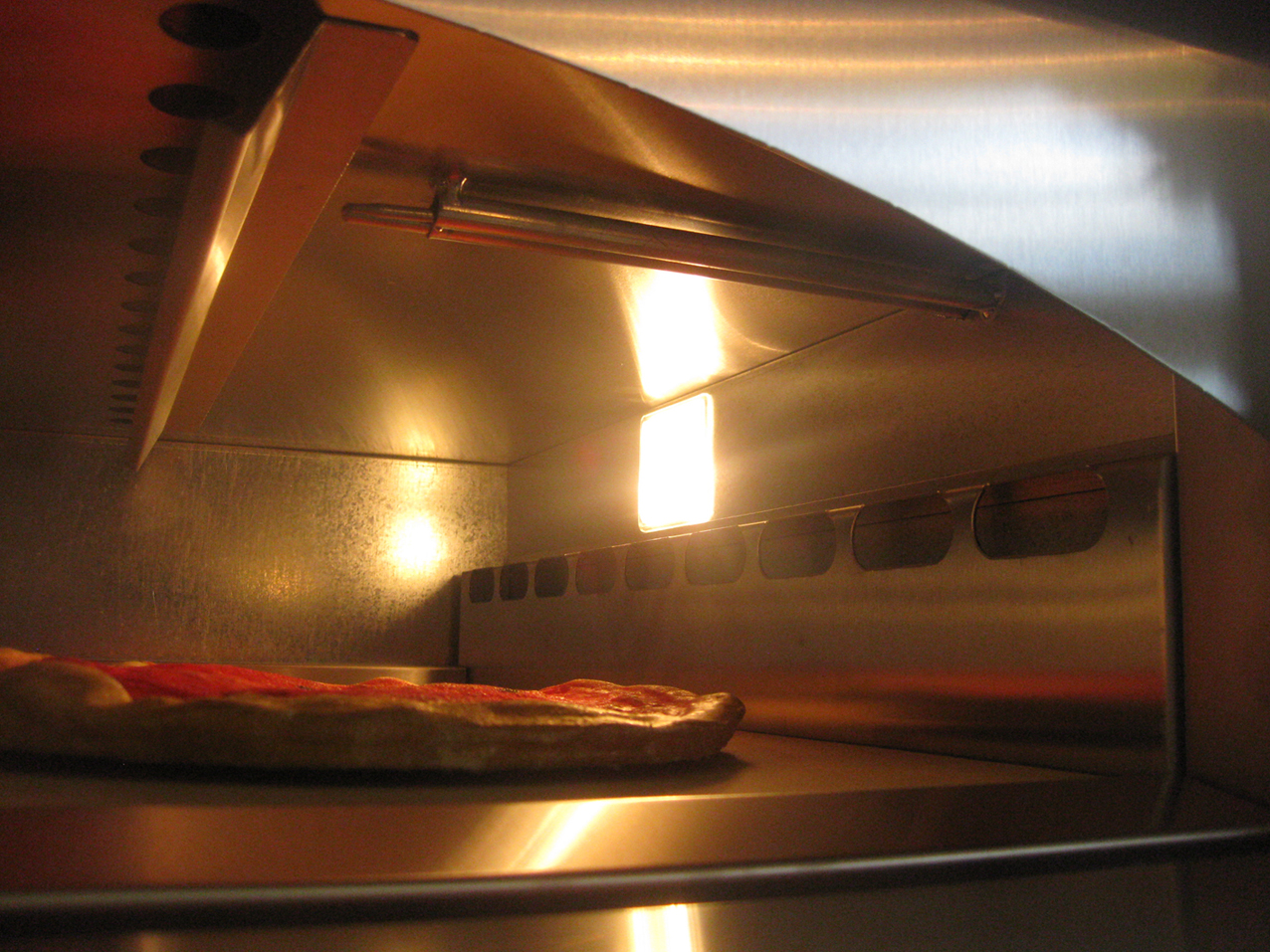 gas pizzaoven